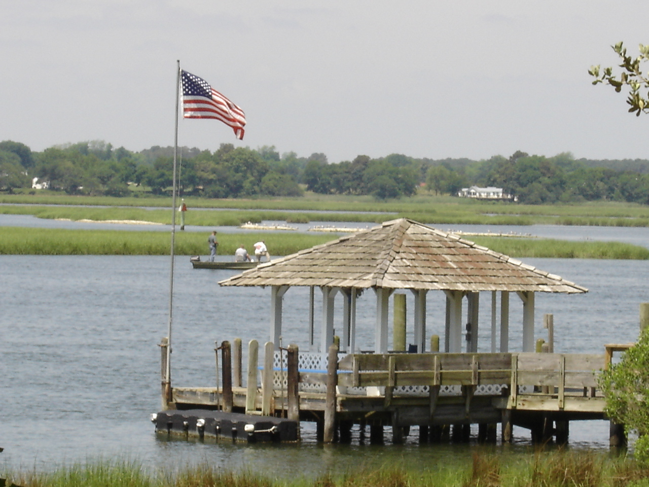 Shot of Great Neck Point and Lynnhaven River, Virginia Beach, Virginia